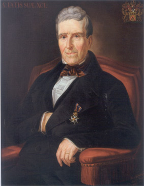 Charles de Brouckère sr, first governor of the province of Limburg, United Netherlands